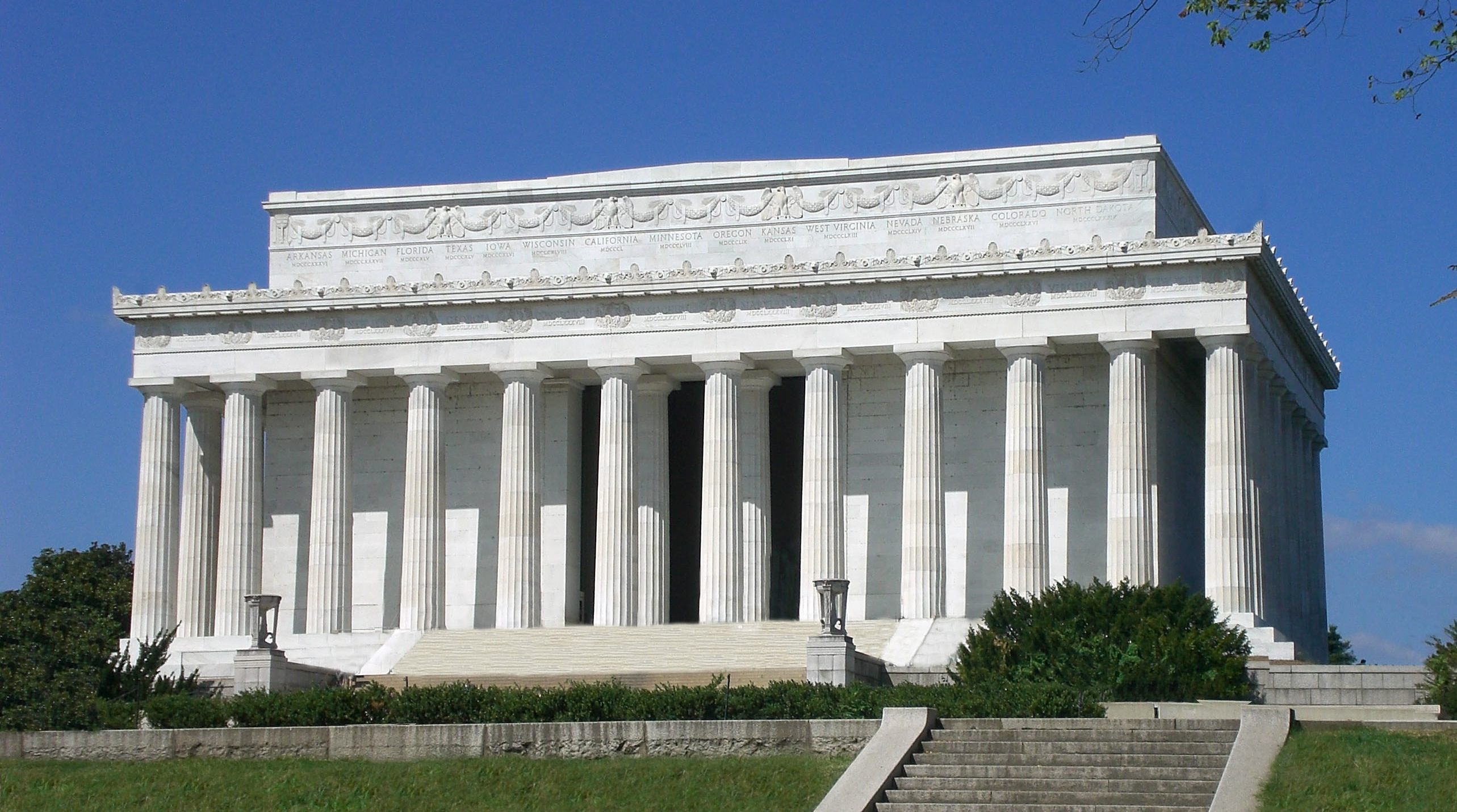 The Lincoln Memorial is a national memorial on the National Mall in Washington, D.C. dedicated to Abraham Lincoln, the 16th President of the United States. The memorial was designed by architect Henry Bacon and dedicated in 1923. The statue of Lincoln was carved of white marble by Daniel Chester French and completed in 1922.